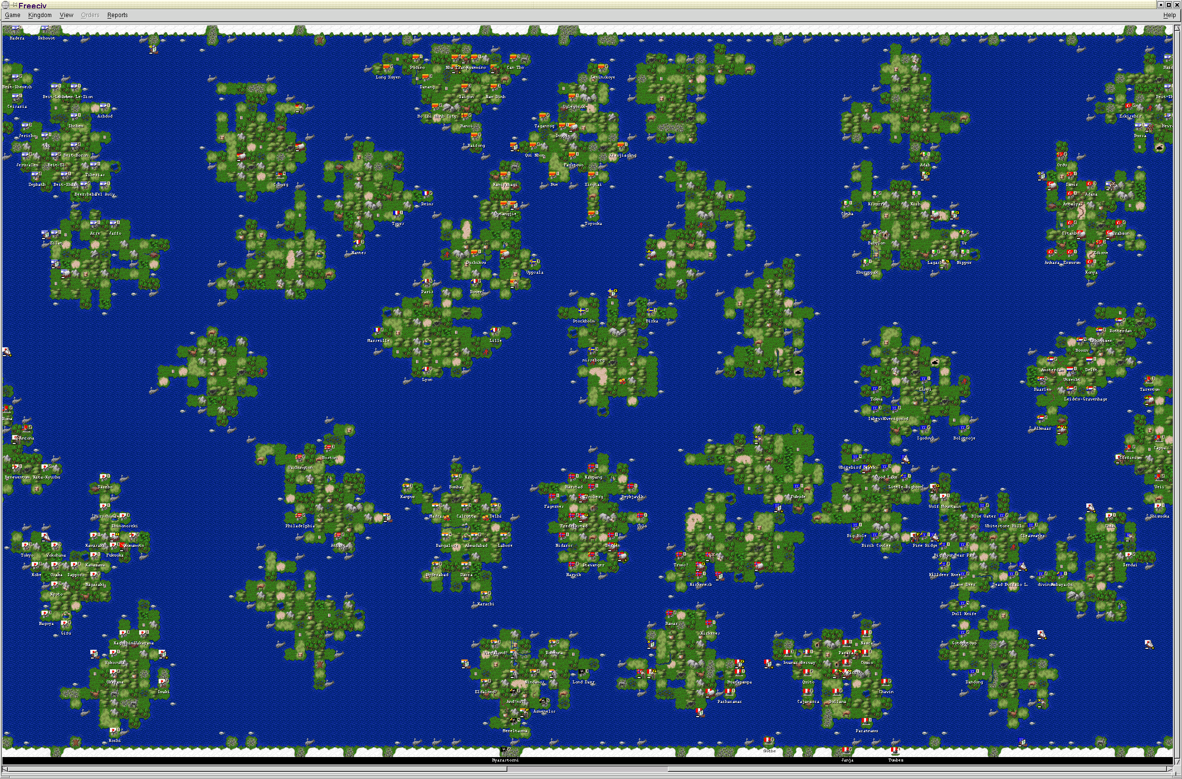 A screenshot of a Freeciv game, taken using Freeciv version 1.11.5 and the tinydent tileset.